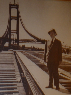 Cropped version of :Image:Steinmanplaque.jpg to tighten on just the bridge and the man. The original plaque, along with other historic Steinman materials is in possession of user:Ciraric, (who claims to be Steinman's great grandson and who has agreed to make more materials available)